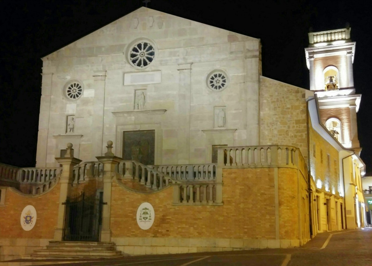 Ariano Irpino Cathedral by night